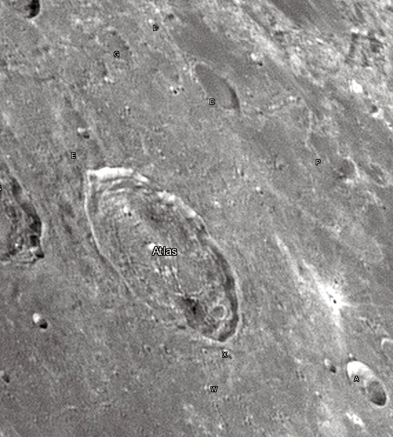 Atlas lunar crater as seen from Earth with satellite craters labeled